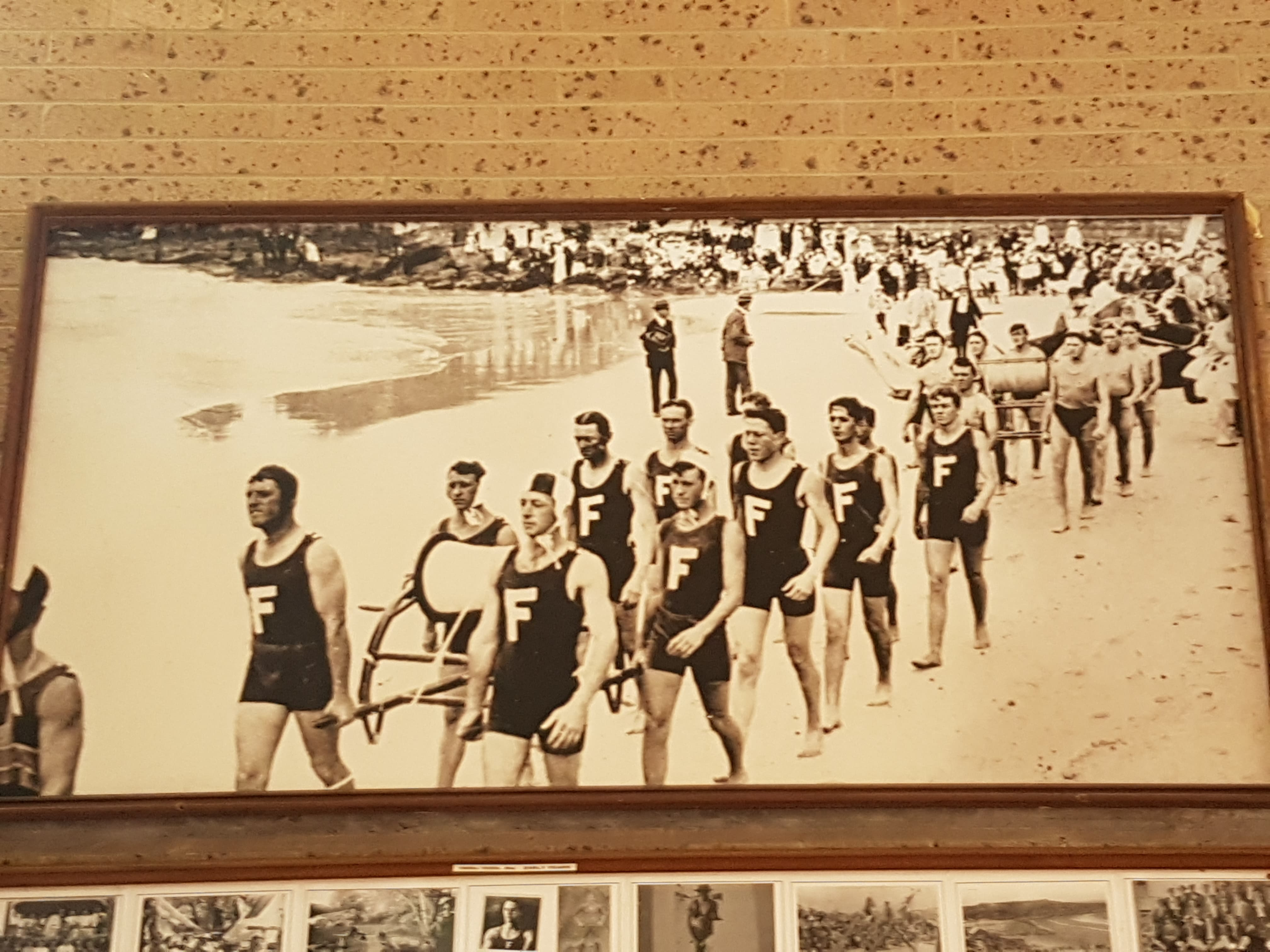 Picture taken of photo hung in Freshwater life saving club